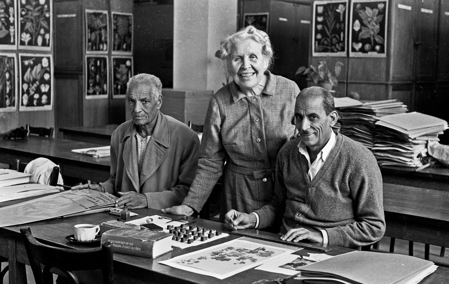 Swedish botanist Vivi Täckholm, professor at Cairo University, with her colleagues Mahdi, plant presser, and Ibrahim, preparator. When the photo was taken in 1969, the herbarium was the largest of Africa. It included about 100 000 plants from all over the world, especially Egypt and the neighbouring countries. If the photo is used outside Wikipedia, "Photo: Staffan Norstedt" or the equivalent in the relevant language shall be indicated next to it.